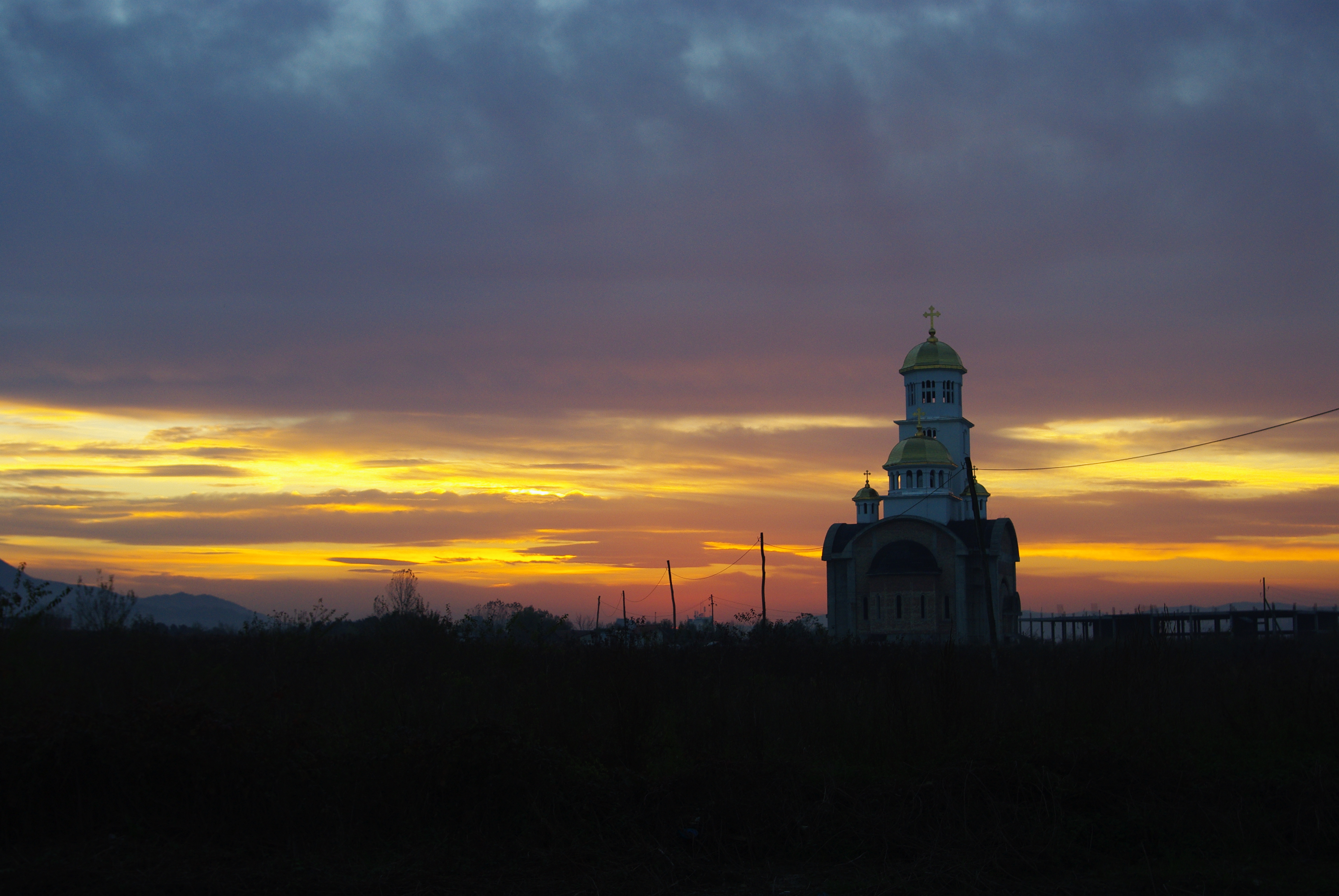 Orthodox Church in Loznica, Serbia.